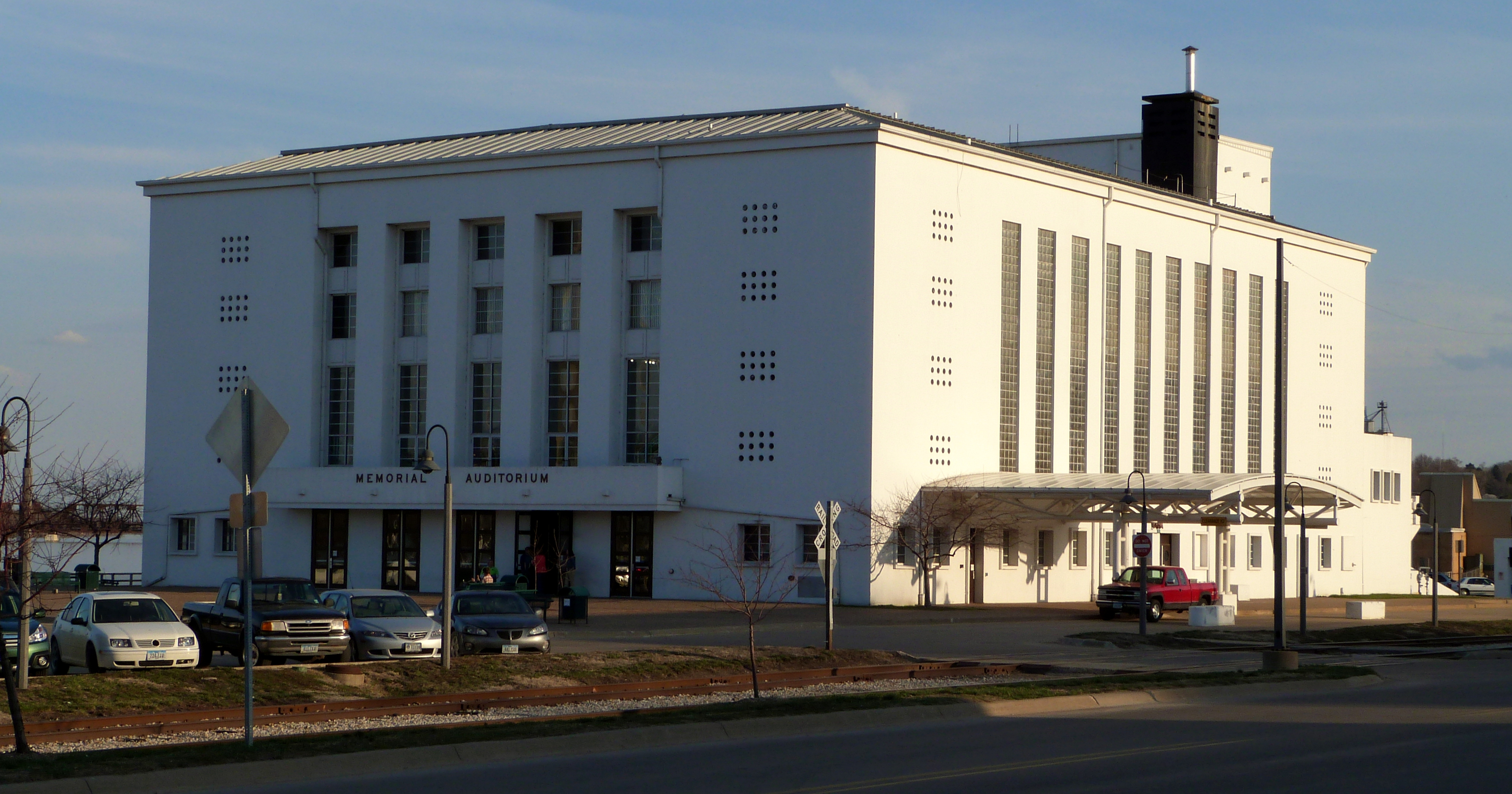 Memorial Auditorium in Burlington, Iowa, United States, is a landmark on Burlington's Mississippi River waterfront.